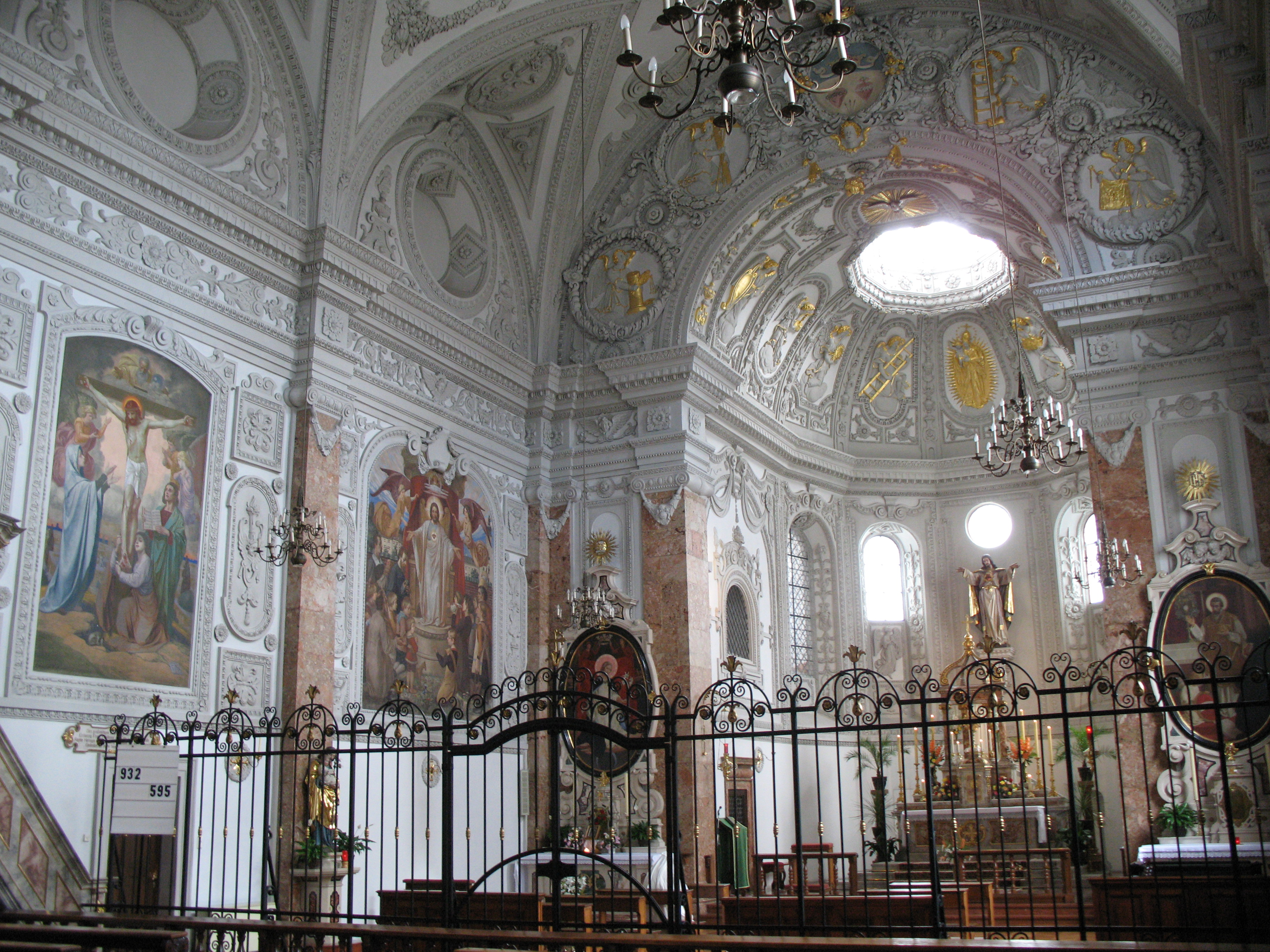 Church of Our Lady, Hall in Tirol, Austria